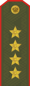 Rank insignia of the Russian federation’s armed forces, here "General of the Army" (OF9) Army – shoulder strap service uniform (1997 – 2010).